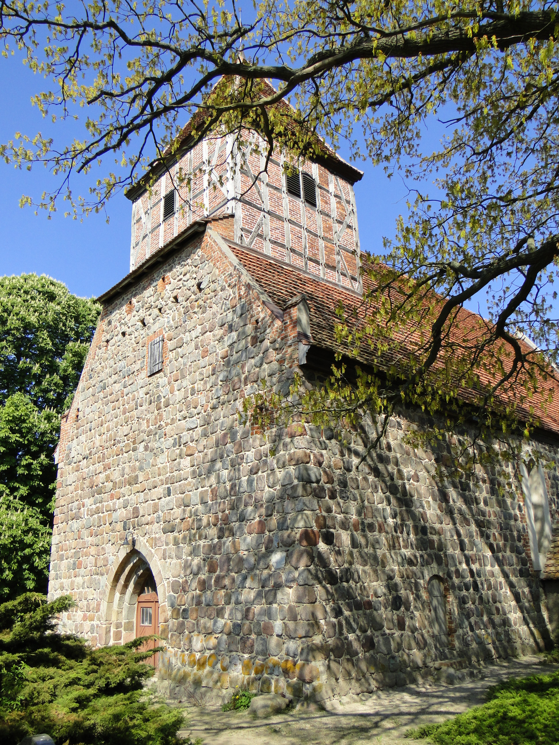 Church in Golm, district Mecklenburg-Strelitz, Mecklenburg-Vorpommern, Germany